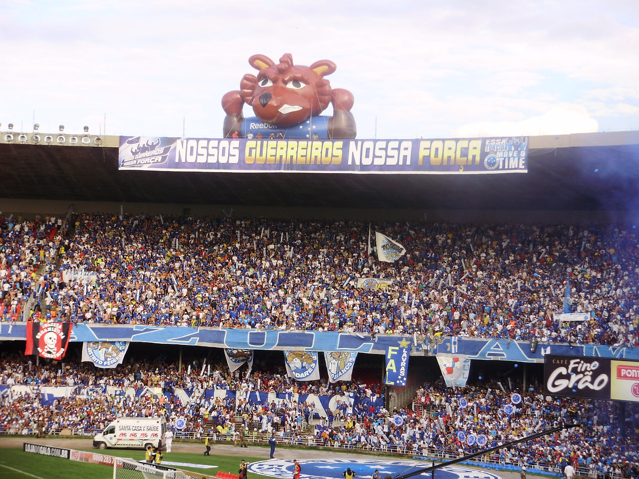 Cruzeiro Esporte Clube fans at Governador Magalhães Pinto Stadium (Mineirão)